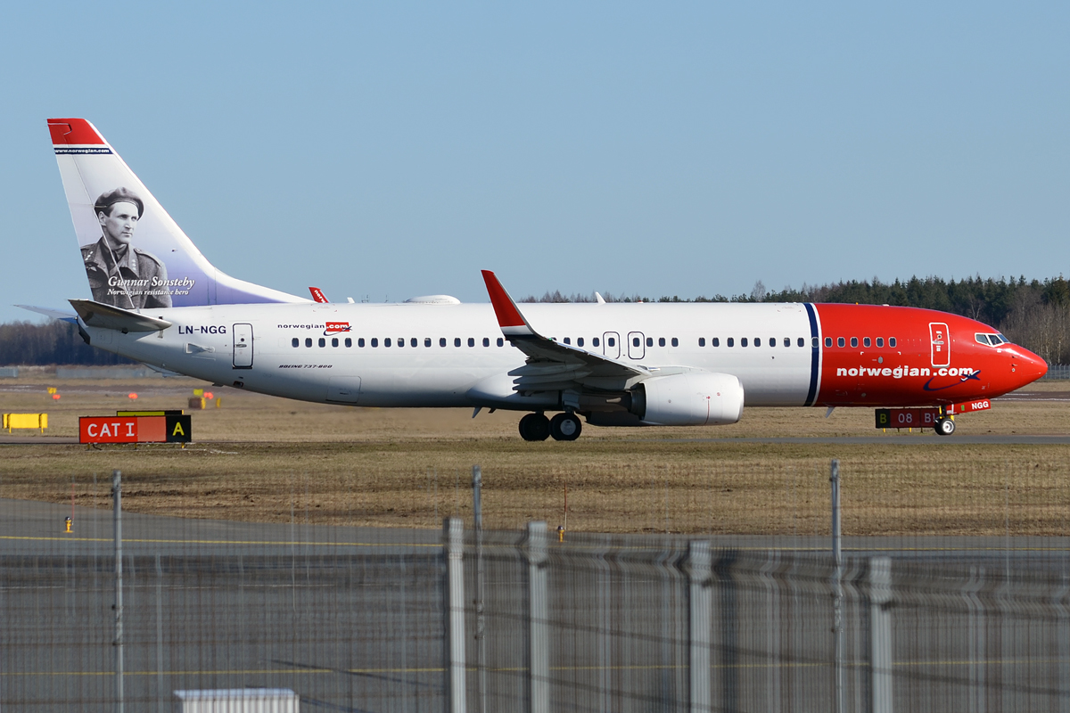 Norwegian Air Shuttle Boeing 737-800 at Tallinn Airport